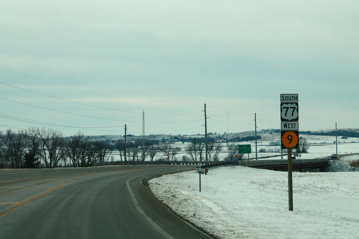 US77sKS9wSignRoadCurve-SouthOfMarysville